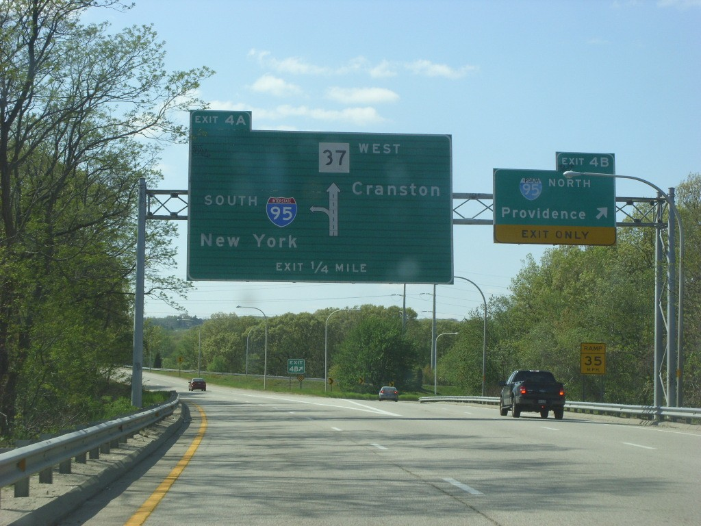 Westbound Rhode Island Route 37 in Warwick approaching Exit 4B and Interstate 95